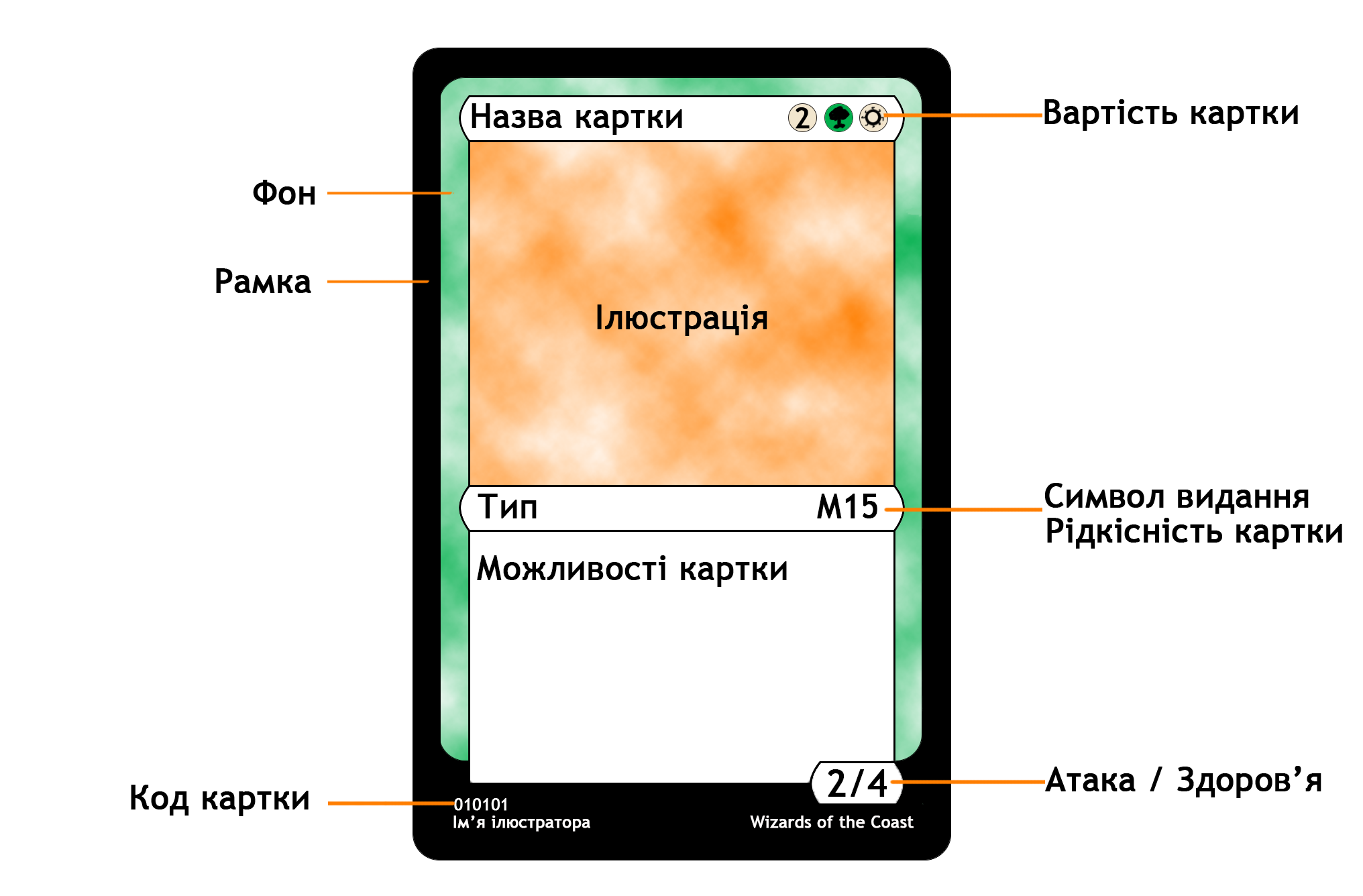 Parts of a Magic: the Gathering card in ukrainian.